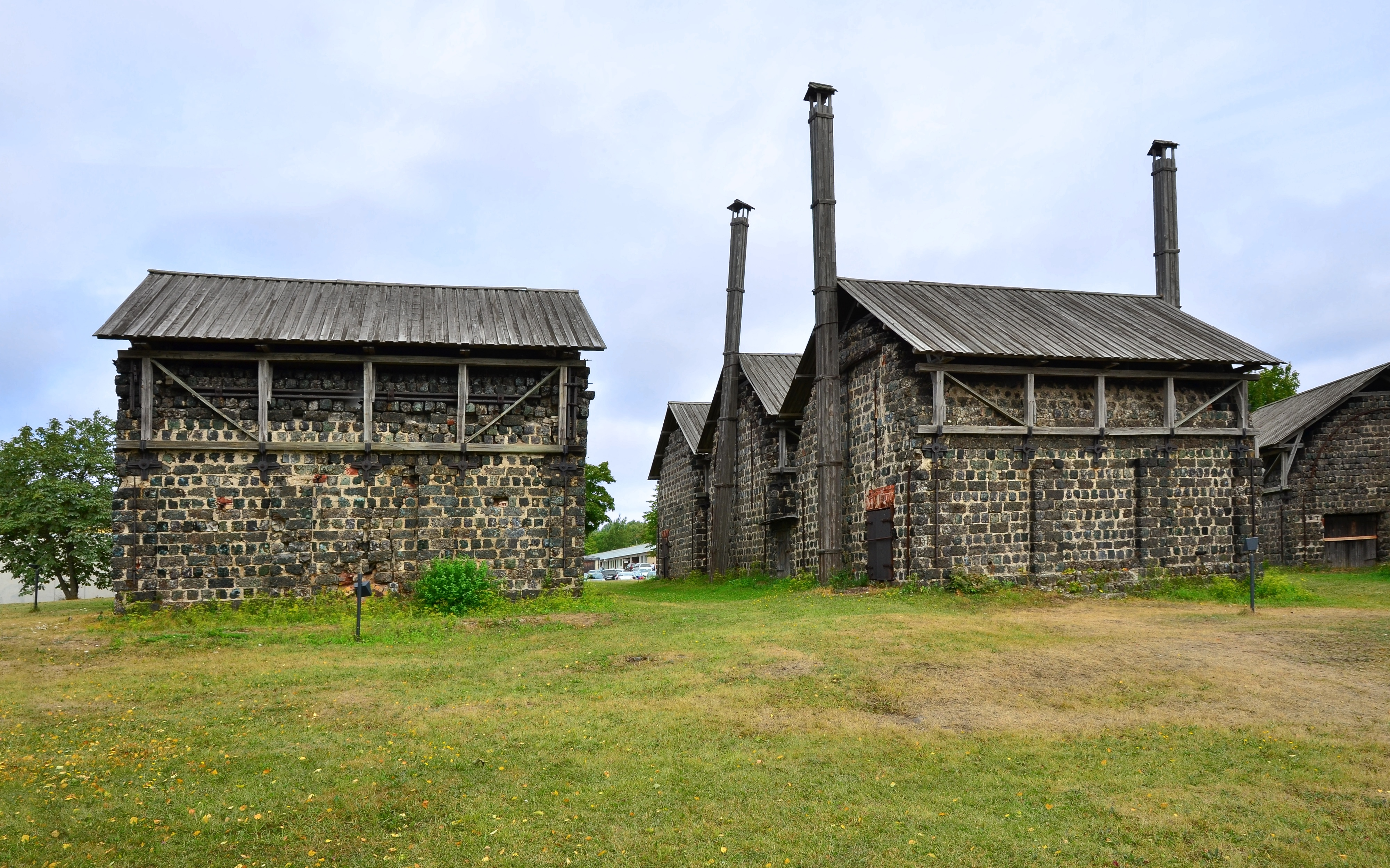 Charcoal ovens in Dalsbruk, Kimitoön, Finland